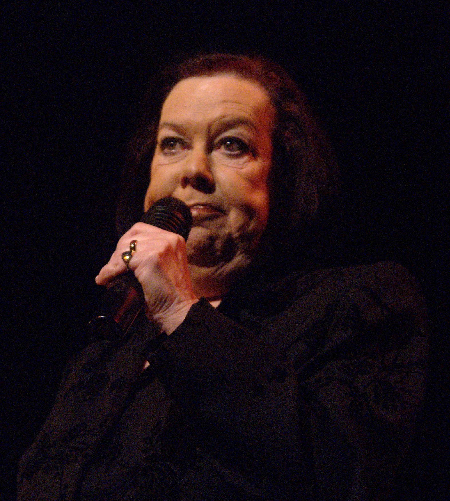 Czech singer Yvonne Prenosilova